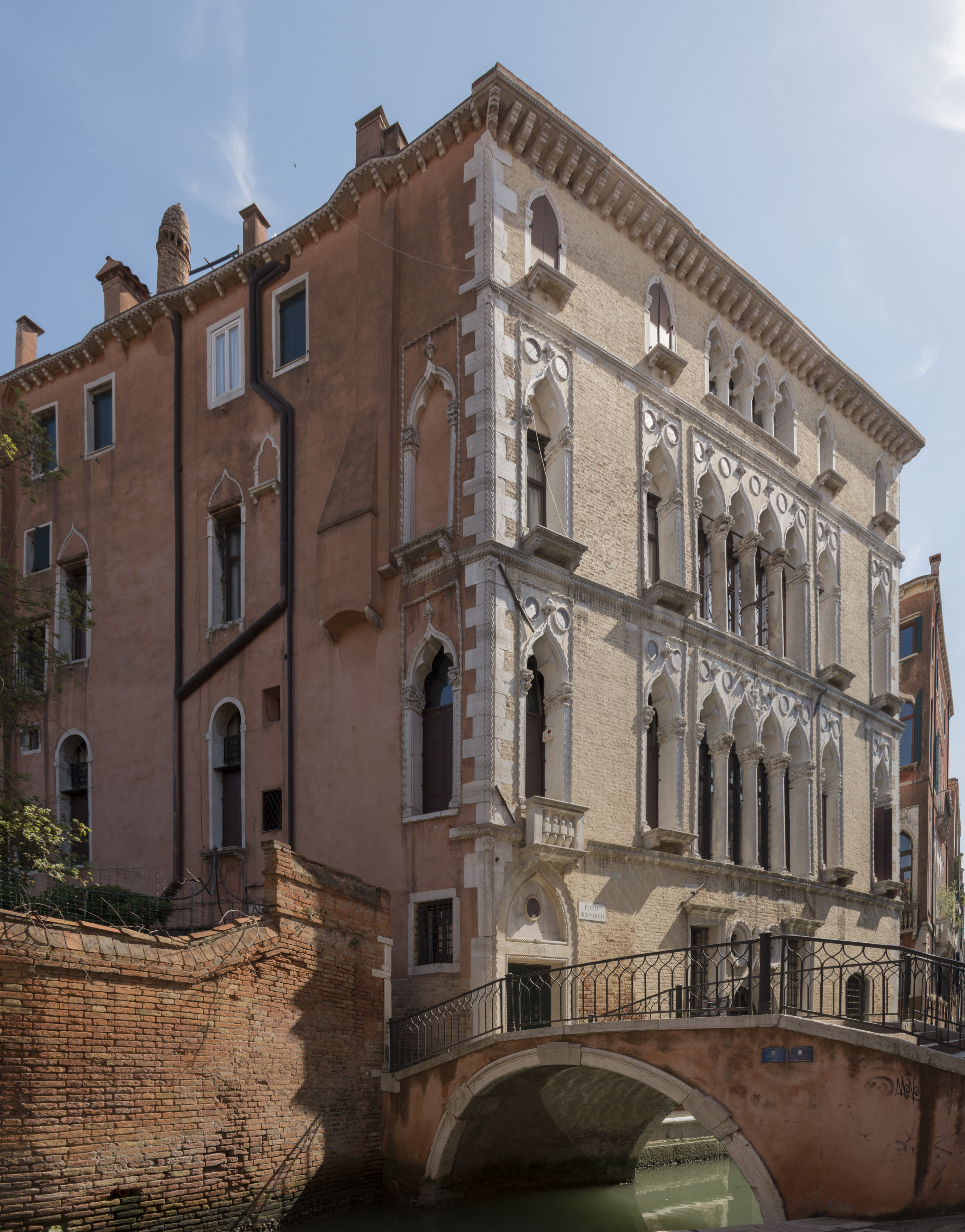 Ca' Bernardo in Venice, facade on Rio de le Do Torre.